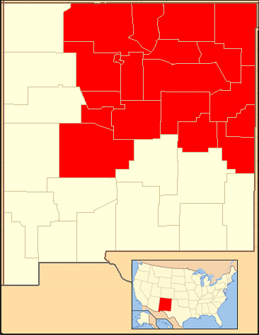 Map of Catholic Archdioceses of Santa Fe in USA.